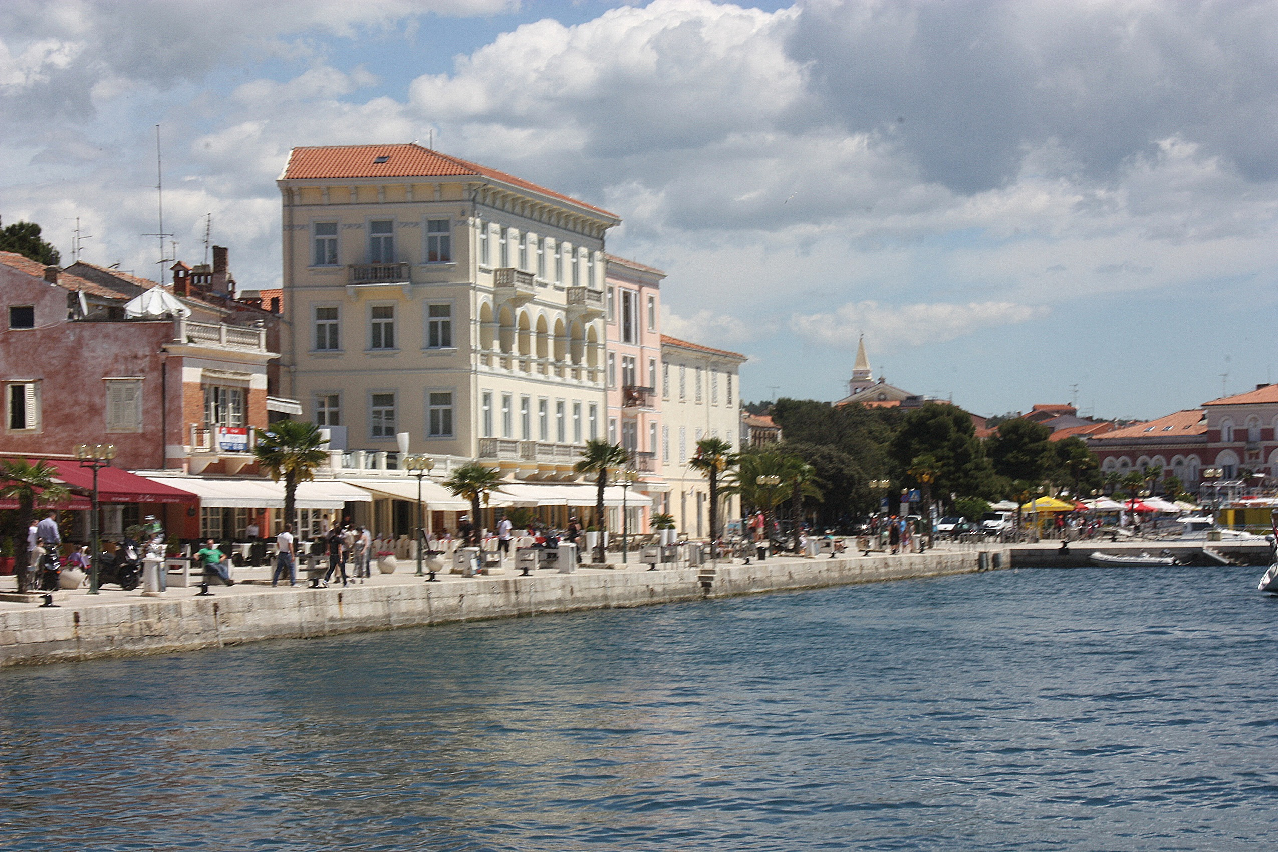 Poreč, Blick to the street Ulica Mate Bernobića